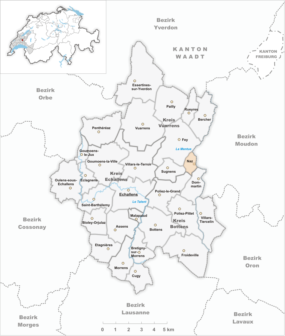 Municipality Naz